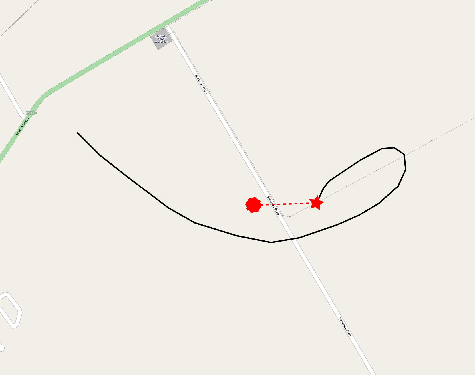 A map showing the route of the Cameron A210 hot air ballon ZK-XXF over Somerset Road, Carterton, New Zealand before it crashed in the 2012 Carterton hot air balloon crash, killing all eleven on board. The red star is the point where the balloon came in to contact with the 33 kV power line, and the red circle is where the wreckage was found.